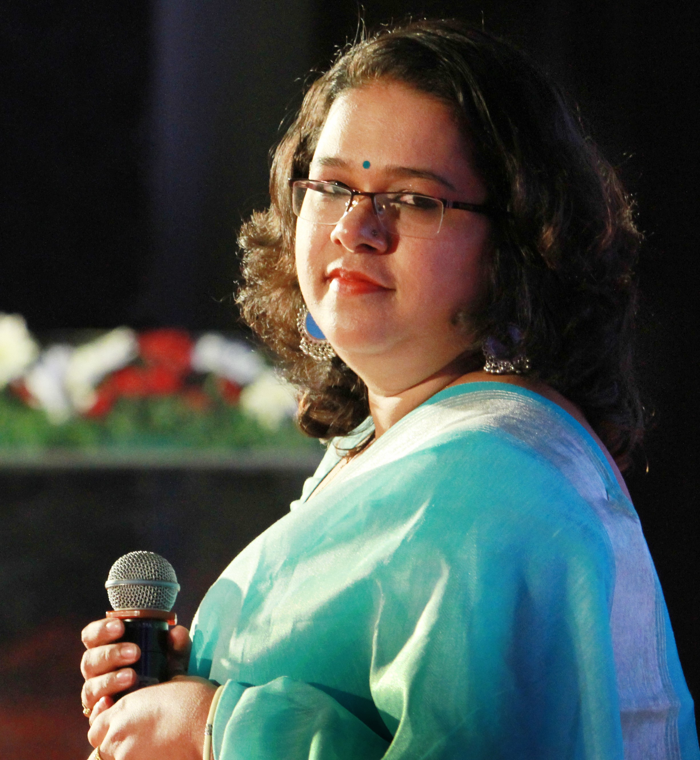 Singer Rajalakshmi